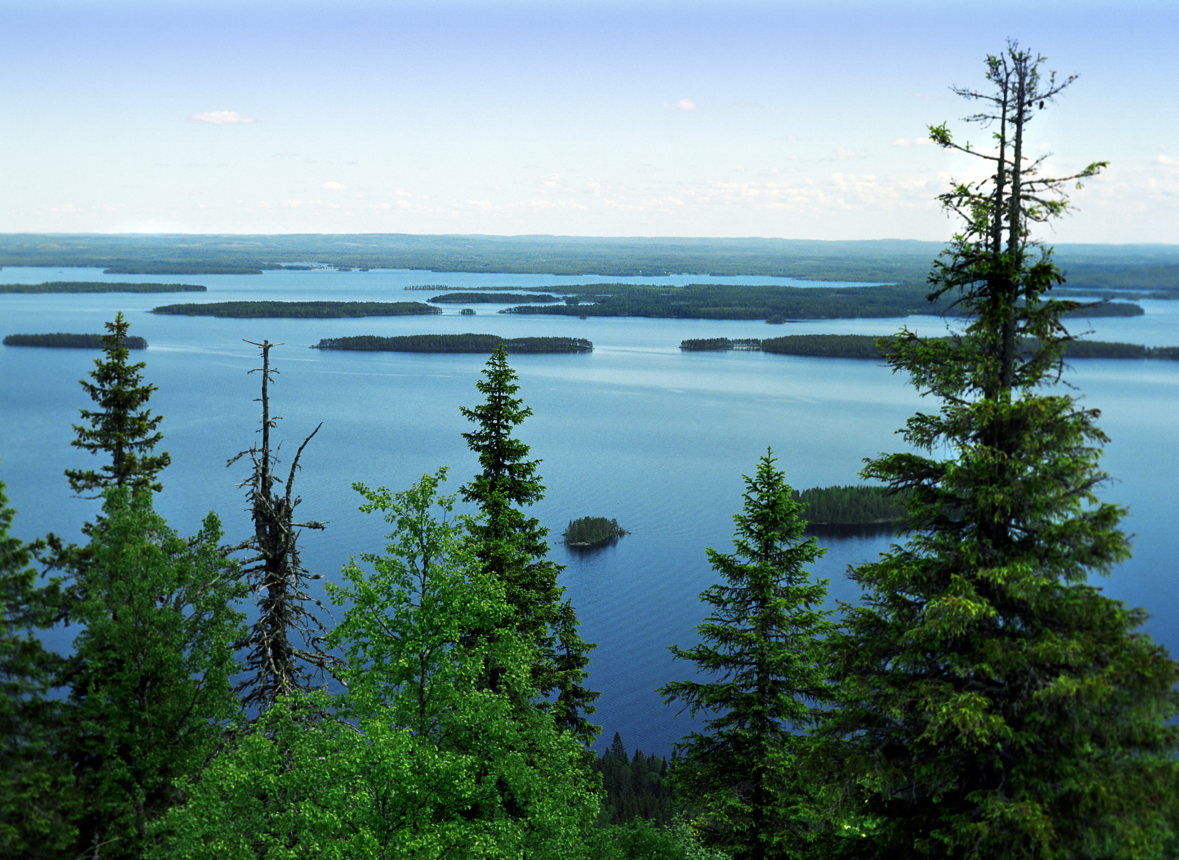 Koli, a ski resort in Finland